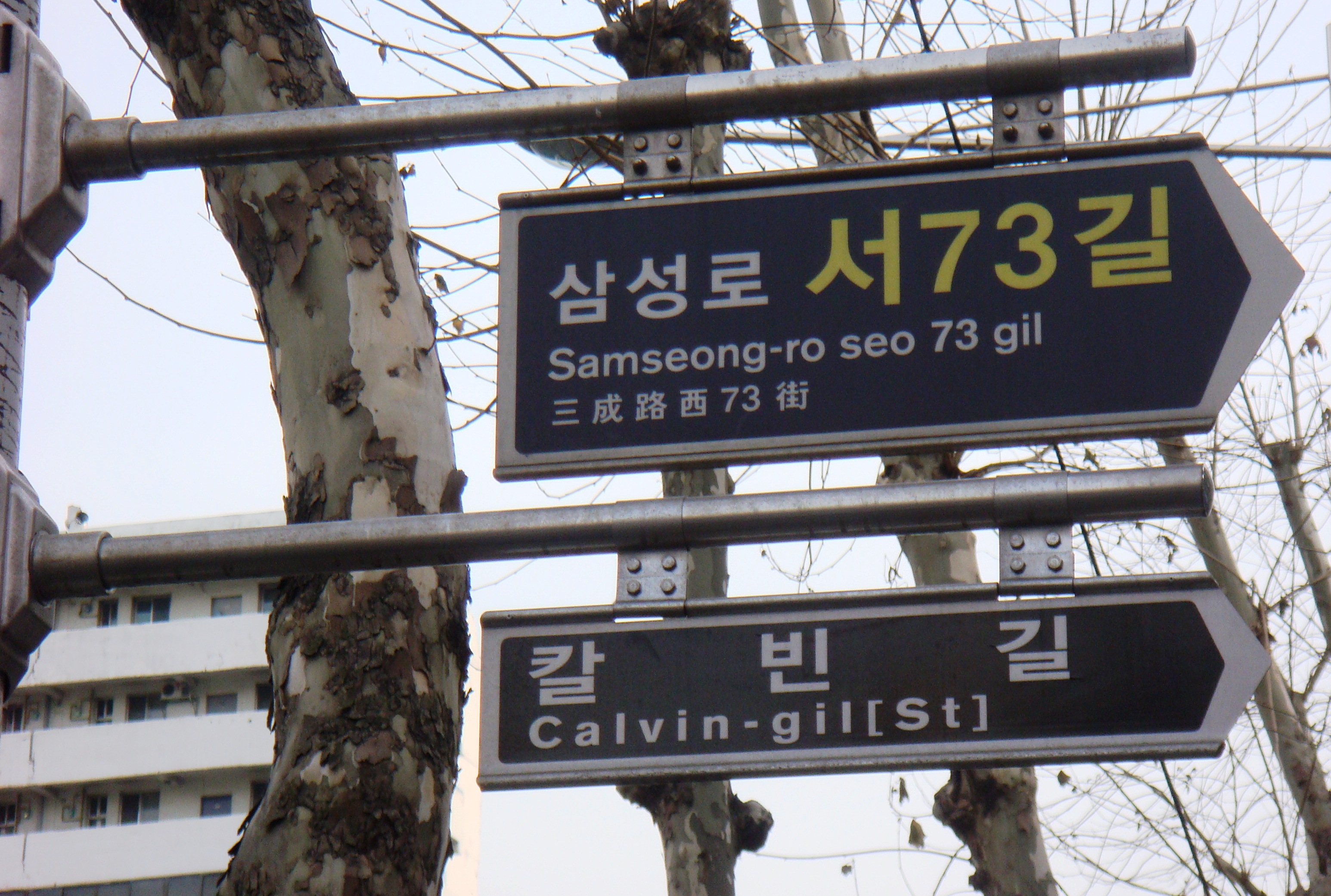 John Calvin Road for Calvin's Birth 500 Memorial Conference, 2009